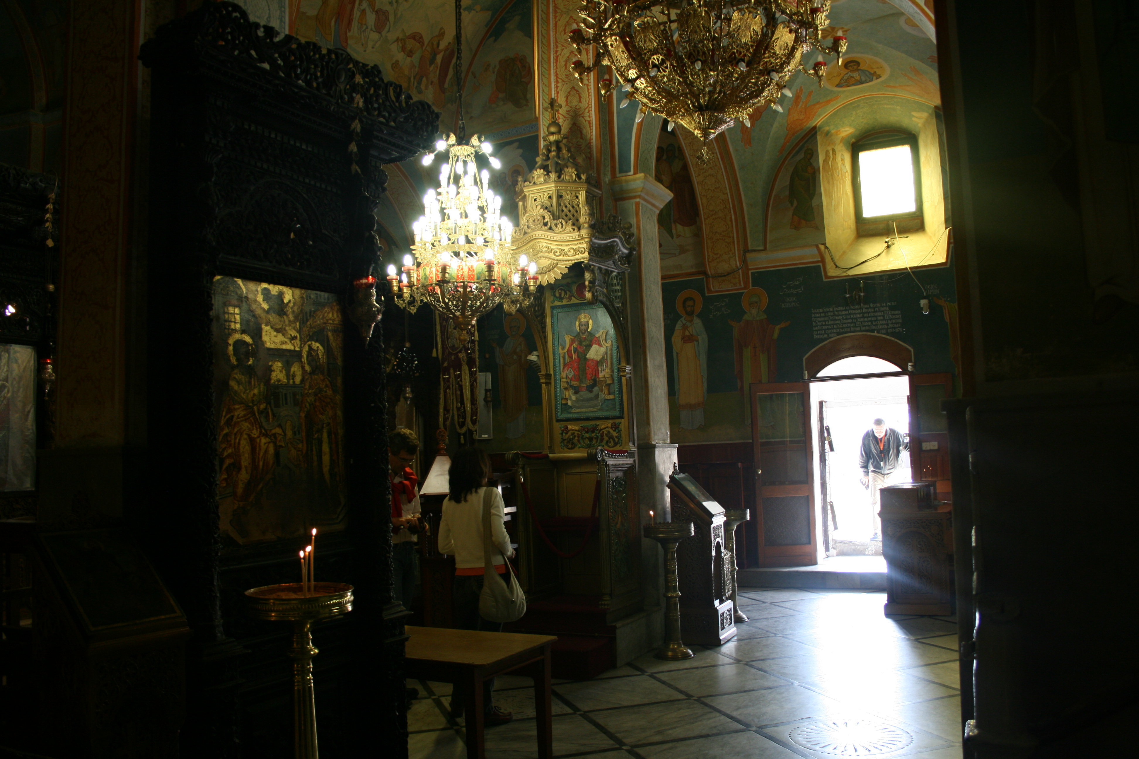 A view of the interior of the Greek Orthodox Church of the Annunciation in Nazareth as it appears when looking toward the 18th century section of the church and its entrance, from the top of the stairs leading down to the older subterranean chamber containing the spring.